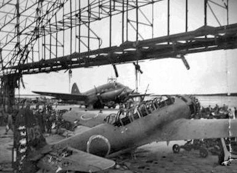 Caption: "CAUGHT WITH THEIR PLANES DOWN: When the wreckage of Japanese planes and equipment was cleared from this airfield on Tinian, a Marine Curtiss Comando transport plane landed with a cargo of supplies and prepared to evacuate wounded Leathernecks. The battered enemy bomber in the foreground was a victim of the pre-invasion bombardment." Credit: USMC Date: July 1944